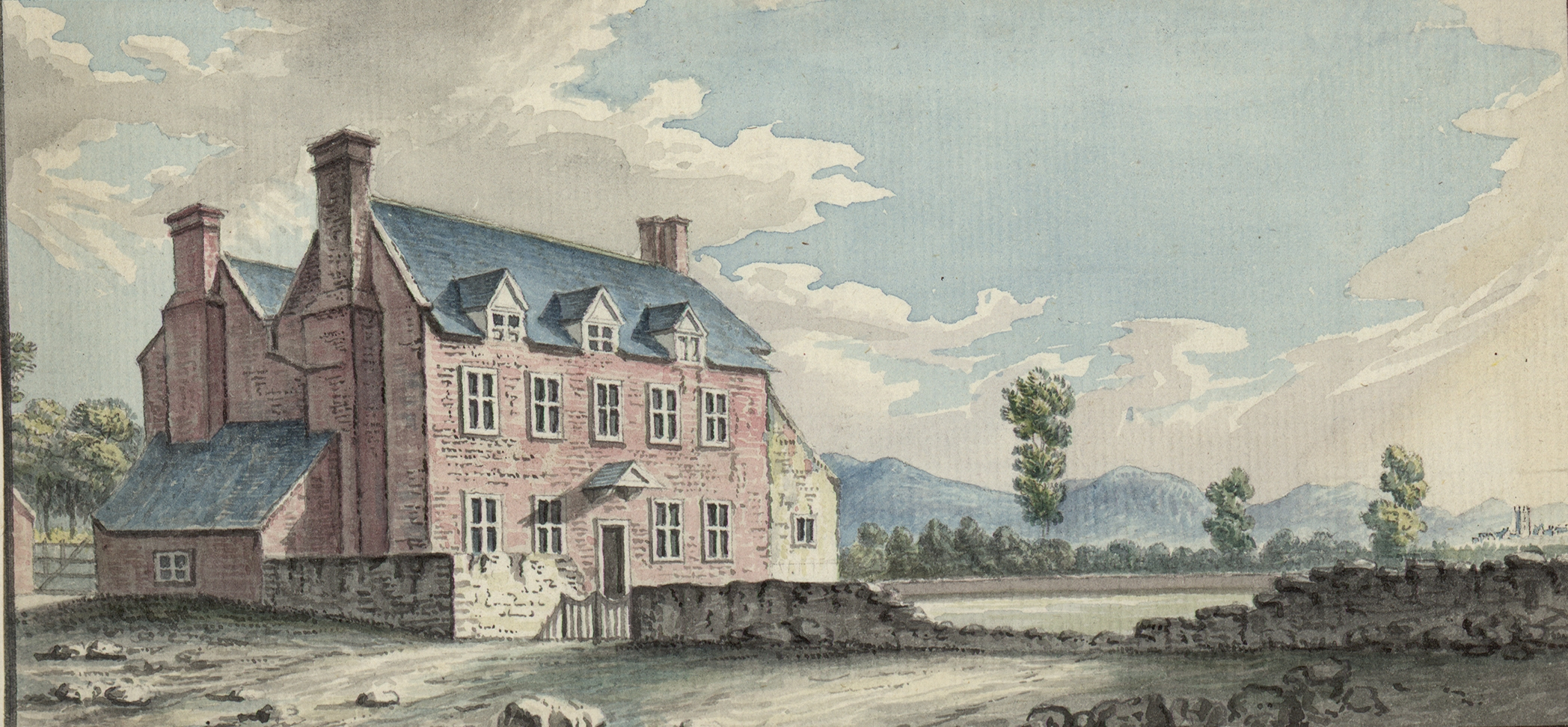 An image from a set of 8 extra-illustrated volumes of A tour in Wales by Thomas Pennant (1726-1798) that chronicle the three journeys he made through Wales between 1773 and 1776. These volumes are unique because they were compiled for Pennant's own library at Downing. This edition was produced in 1781. The volumes include a number of original drawings by Moses Griffiths, Ingleby and other well known artists of the period. Thomas Pennant (1726-1798)